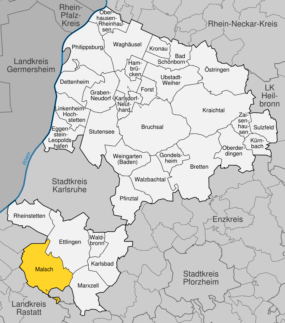 position of Malsch within distict of Karlsruhe, Baden-Württemberg, Germany